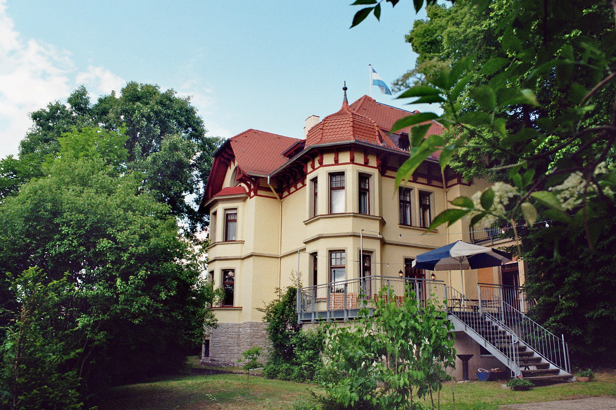 House of student fraternity "Corps Bavaria Würzburg" in Würzburg/Germany, view from the garden